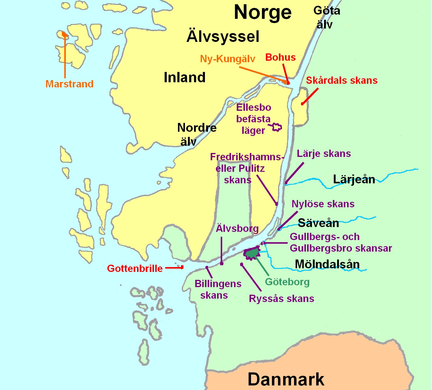 Map showing borders, fortifications and cities in the Göta älv-area connected to the "Hannibalfeud" 1643-1645. Red: Danish-Norwegian fortifications, Orange: Danish-Norwegian towns, Purple: Swedish fortifications, Green: Swedish towns.